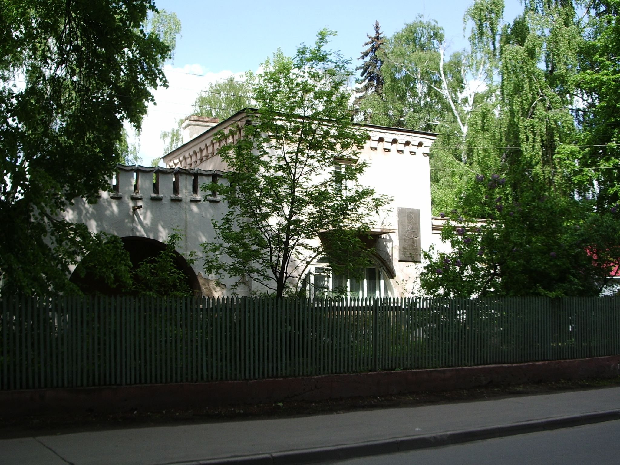 Levitana street 6a. Sokol settlement in Moscow.